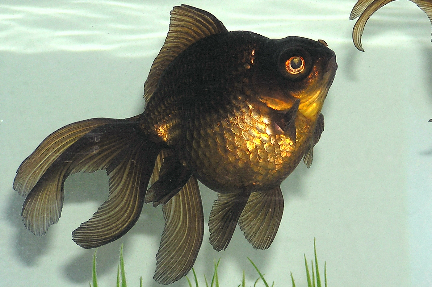 Profile of a large black moor goldfish.